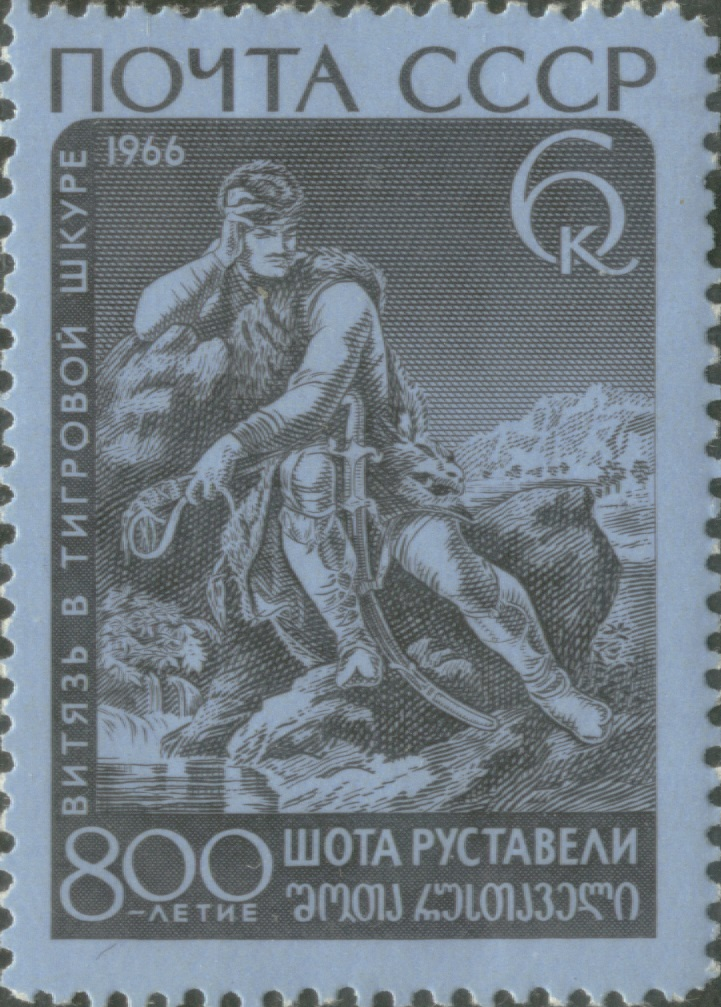 A USSR stamp. 800-anniversary of the Georgian poet Shota Rustaveli (birth and death unknown). (1966, Registration of E. Aniskina, Gy. T. Nikitina, ЦФА №3396). Illustration for the poem "The Knight in Panther's Skin": Tariel (the same name in Fig. S. Kobuladze , 1935-1937.